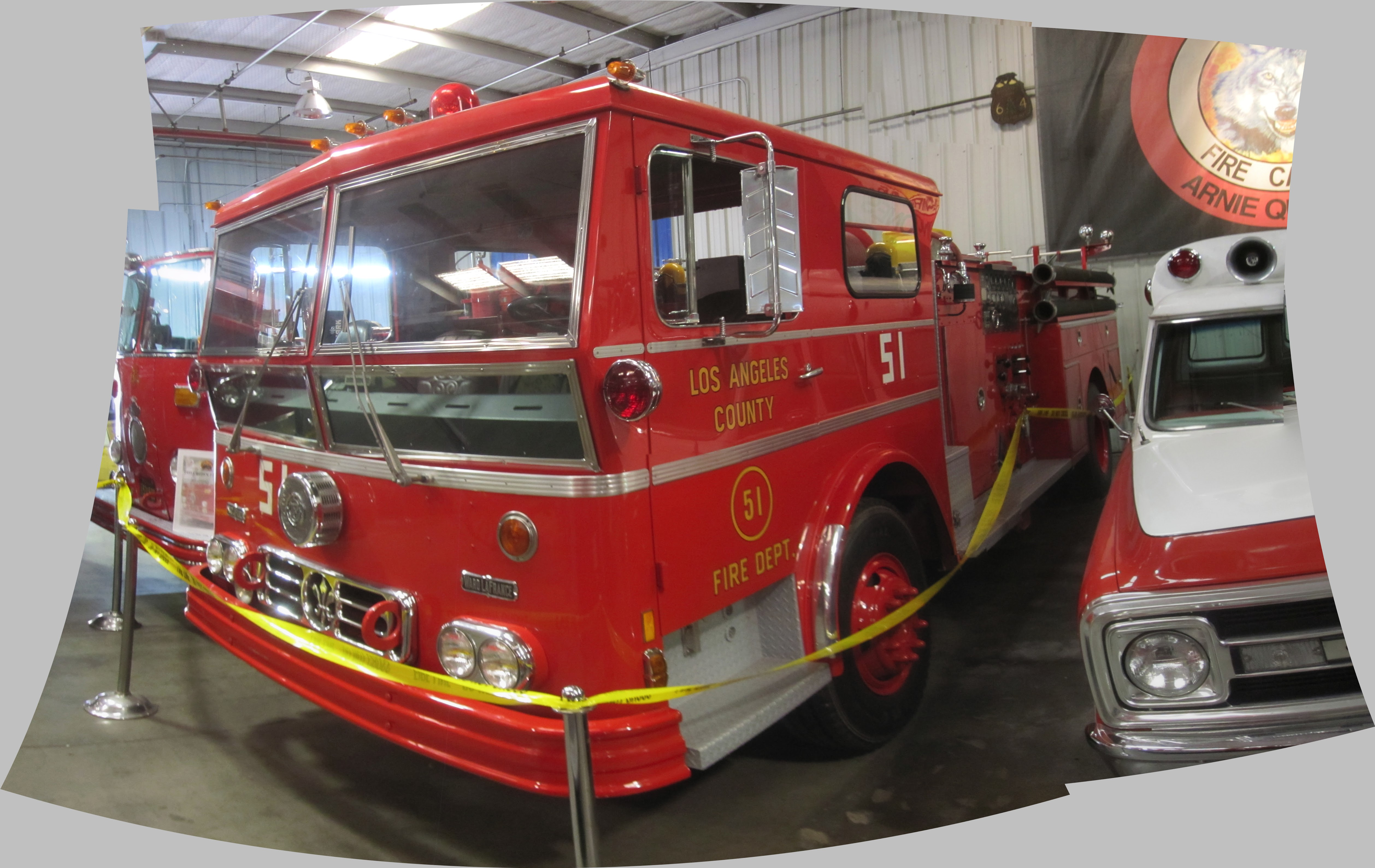 Here's a composite panorama of the museum's Ward LaFrance.